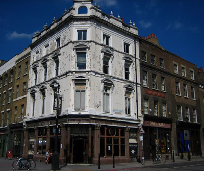 Outside the Ten Bells, London